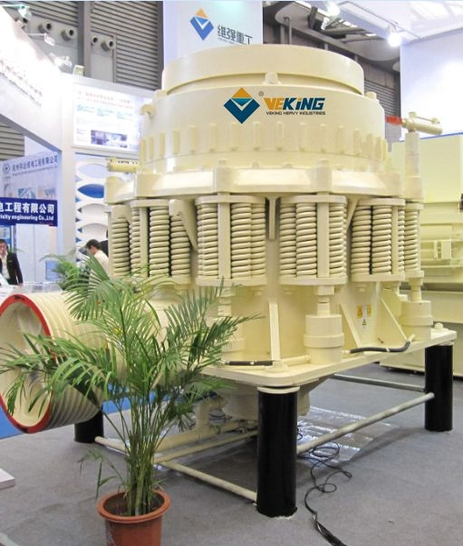 VSC series cone crusher(Compound cone crusher) is one of the flagship products of Shanghai Veking Heavy Industries Co.,Ltd. And it has features of simple structure, smooth operation, stable performance and leading output among similar products.